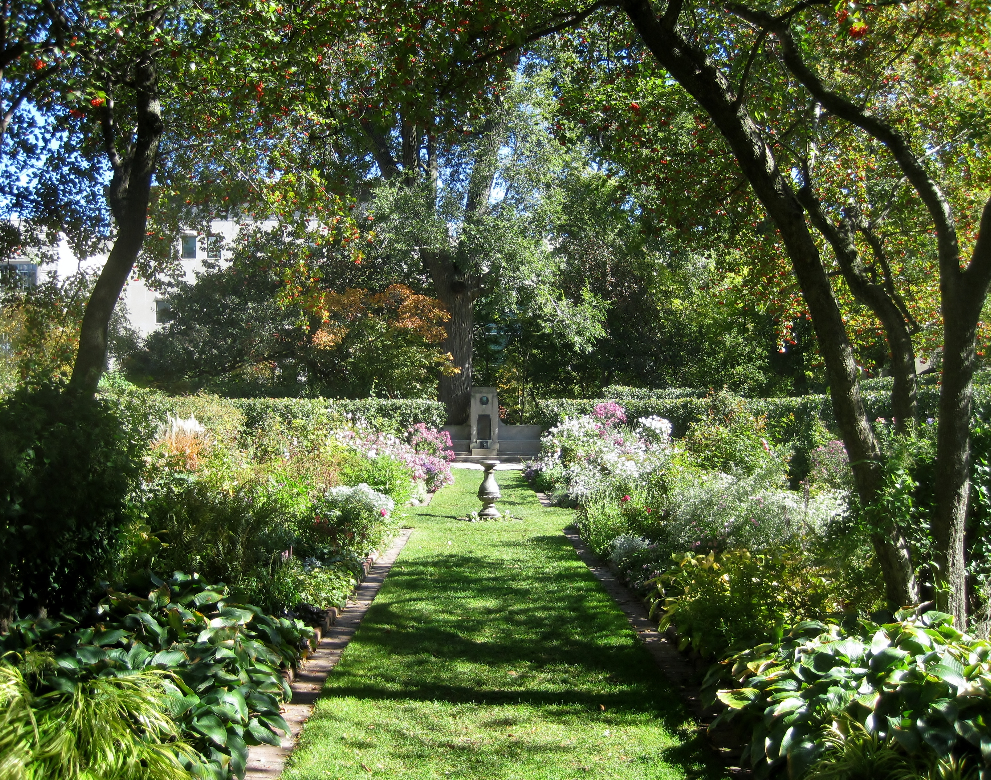 The Shakespeare Garden in Evanston (1915). It was established by the Garden Club of Evanston to commemorate the 300th anniversary of Shakespeare's death. It was designed to honor the fallen British allies in World War I and to celebrate the ties between the UK and the USA. It was designed by famed landscape architect Jens Jensen. The plants in the garden are those mentioned in Shakespeare's plays, which all happen to thrive in the Midwestern climate. The common hawthorns in the garden date back to the original founding of the garden. The fountain, designed by Hubert Burnham, was installed in 1929. It was dedicated to his mother, who had been the Chairman of the garden.